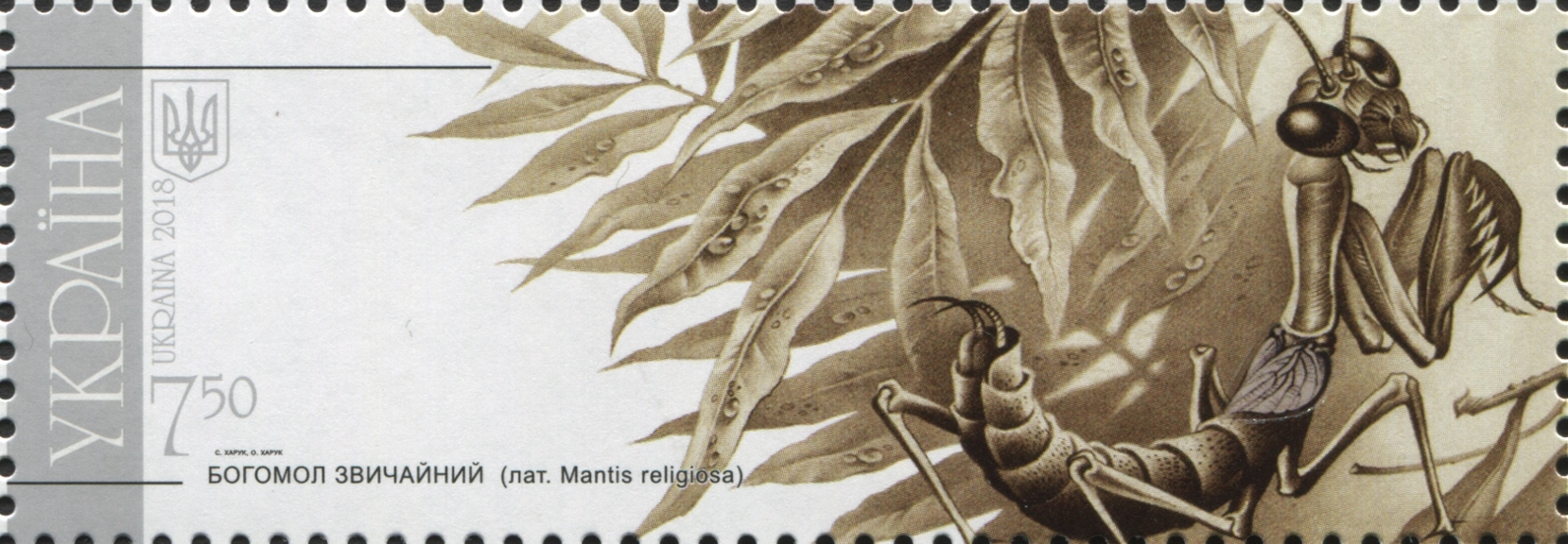 2018 Ukraine Stamp